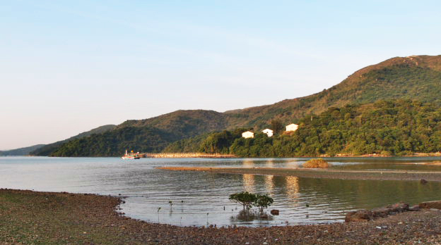 赤徑沙頭的碼頭和白普理YMCA（Bradbury Hall）